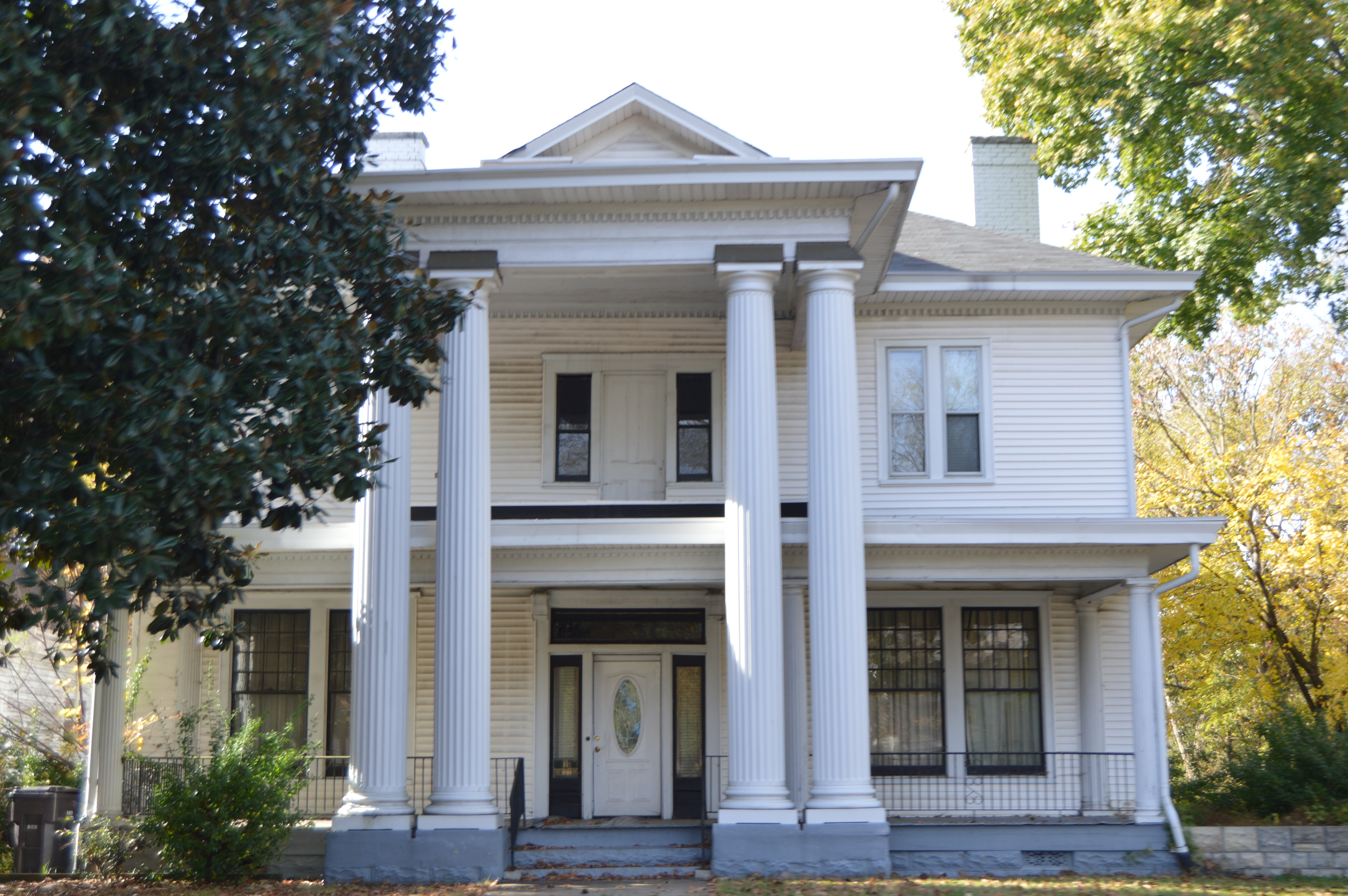 Front of the Scarborough House, located at 1406 Fayetteville Street in Durham, North Carolina, United States. Built in 1916, it is listed on the National Register of Historic Places.